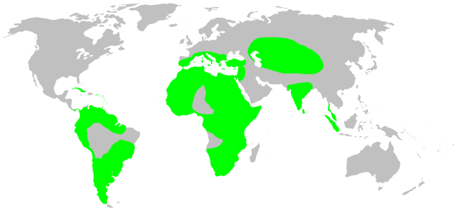 Palpimanidae habitat distribution, drawn after Platnick: World Spider Catalog 7.0. This is not a precise rendering of the distribution! If you have better information, please replace this map, or send me the info, and i will redraw it.